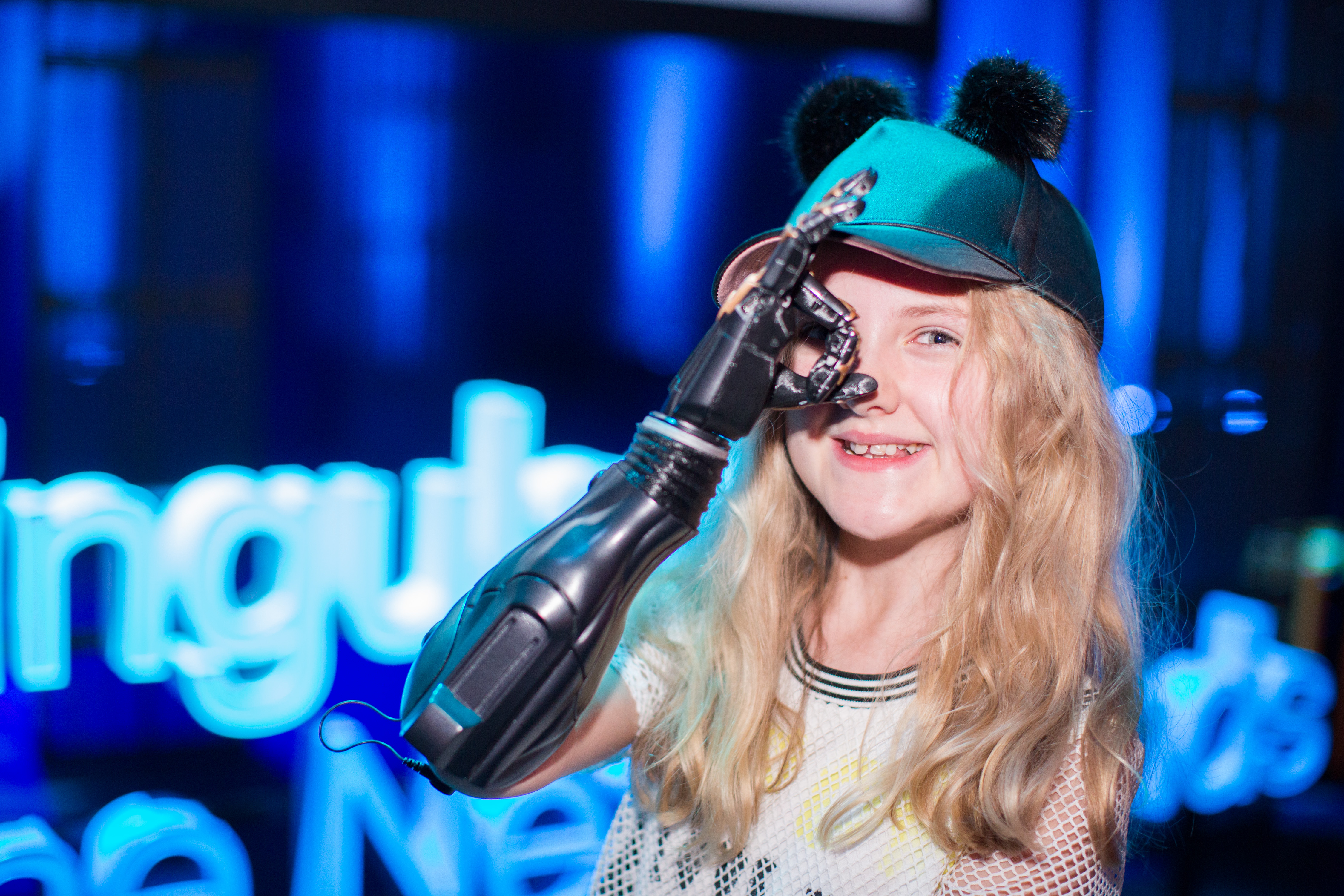 The SingularityU The Netherlands Summit 2016 took place on September 12 & 13 in Amsterdam, The Netherlands. The Netherlands Summit was aimed at bringing awareness about exponential technologies and their impact on business and policy. The theme of the summit was "Reality Check - Fast-Forward into our Future". For more information